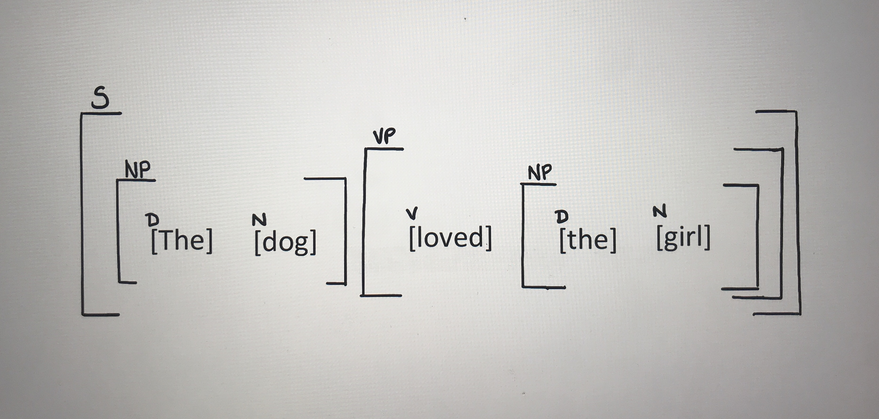 This illustration demonstrates how phrases combine to form a sentence. This illustration was taken from the book 'The Study of Language' written by George Yule (2015).